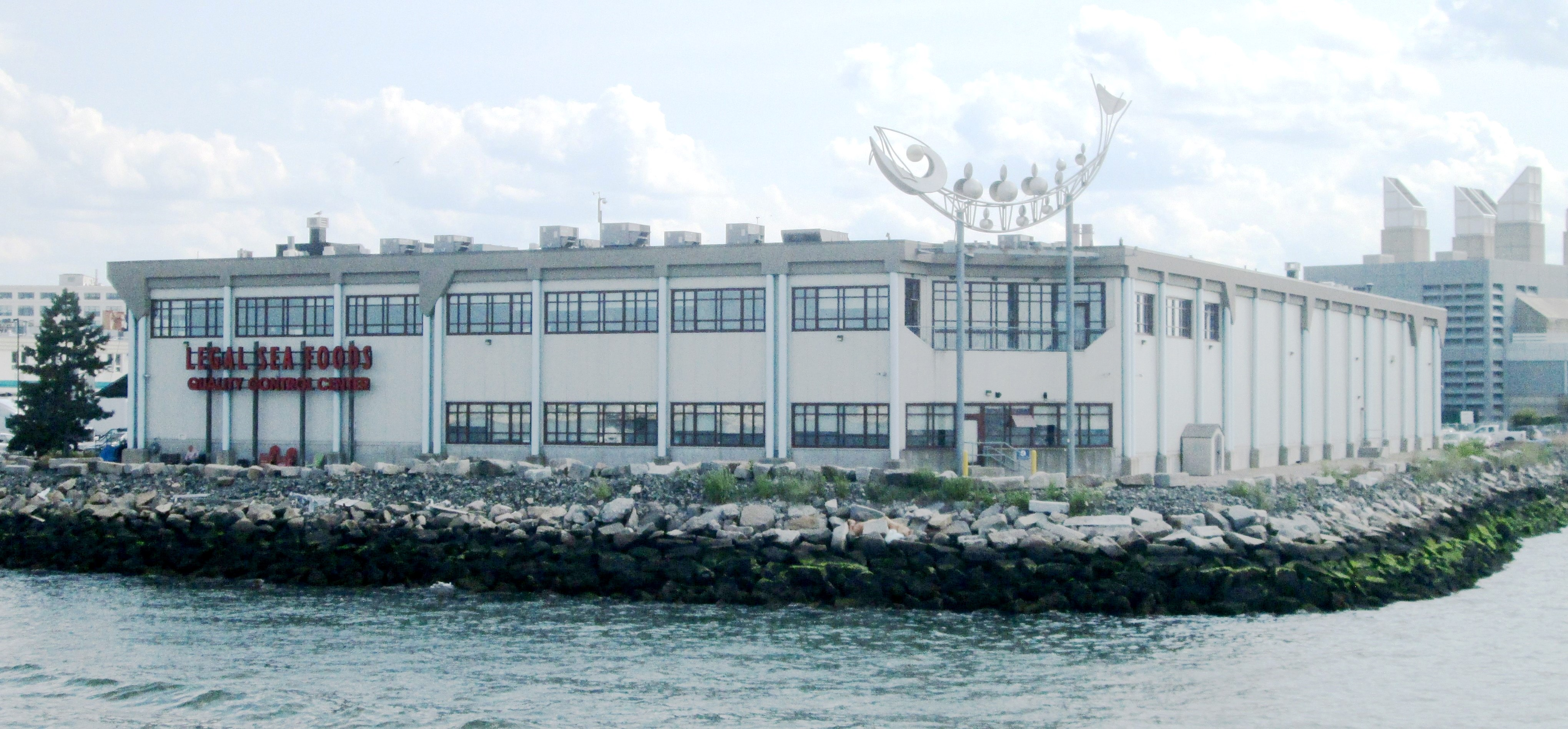 The Legal Sea Foods Quality Control Center, located at 1 Seafoord Way in the Seaport District of Boston, Massachusetts, is also the company's corporate headquarters.